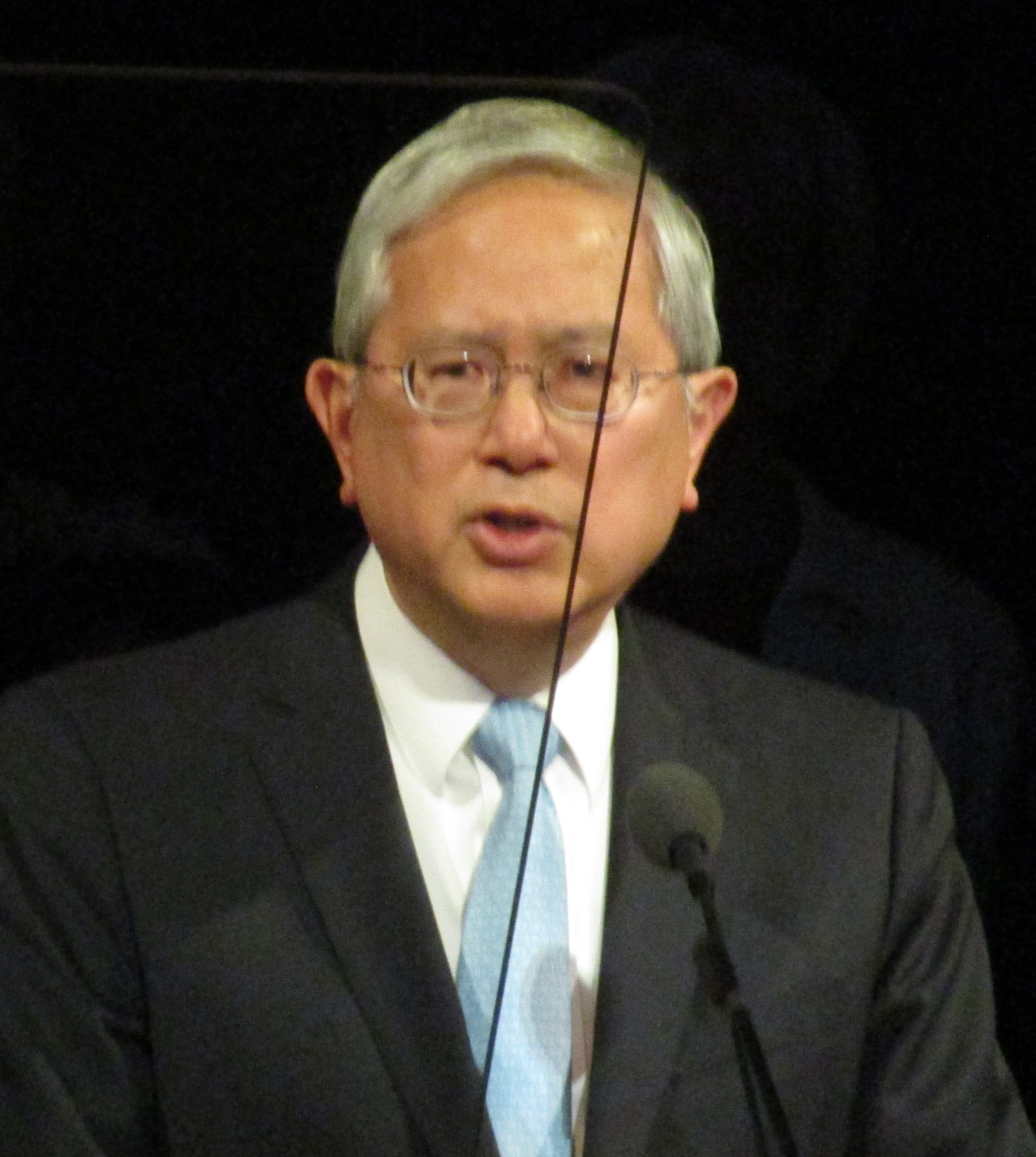 Elder Gerrit W. Gong speaking at BYU Women's Conference.